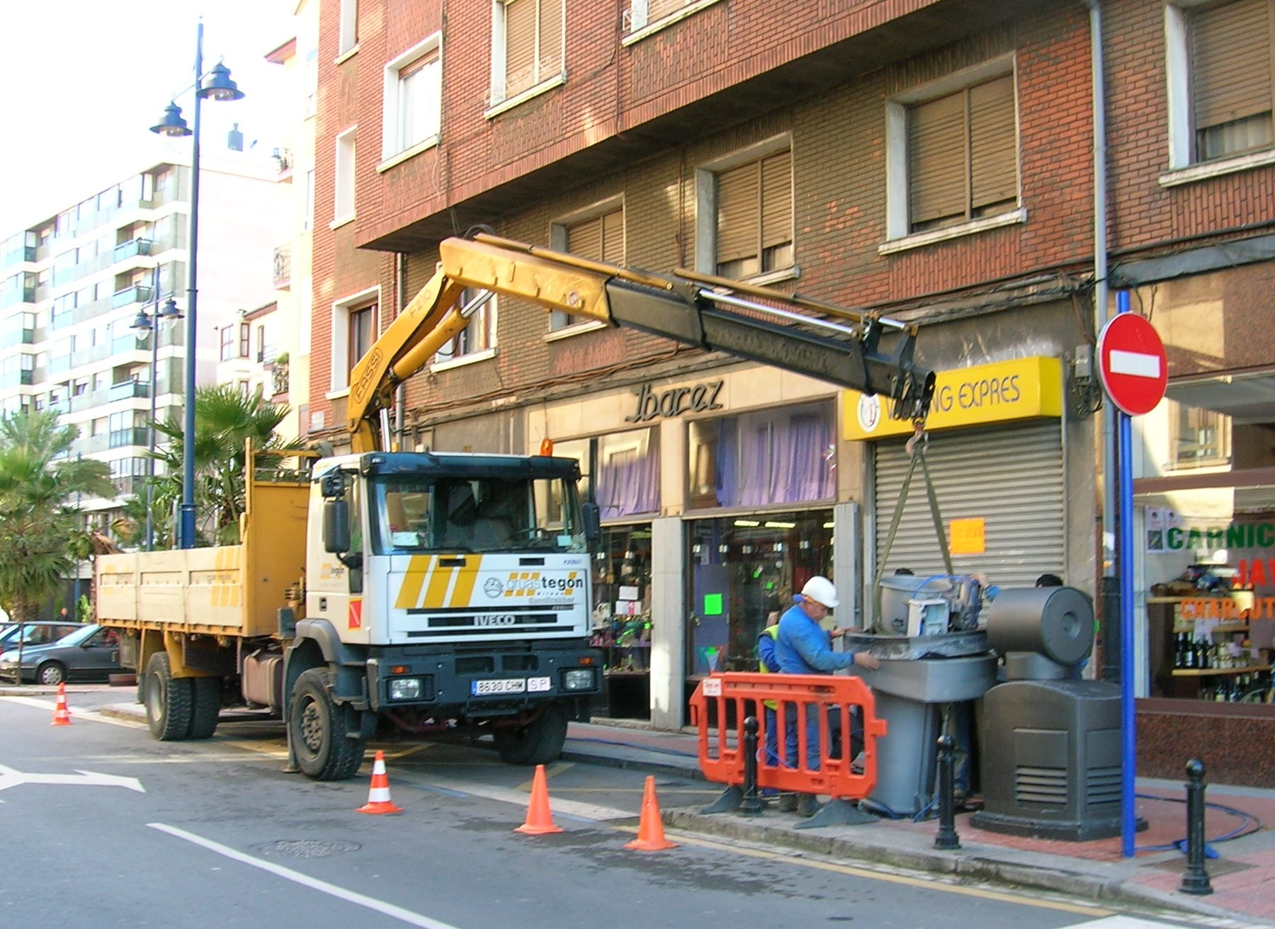 Instalation of entry boxes for the garbage underground pneumatical transport system in Barakaldo, using a crane-truck. Iveco EuroTrakker.